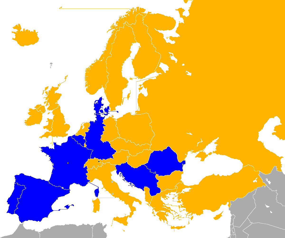 Euro 1984 qualifiers